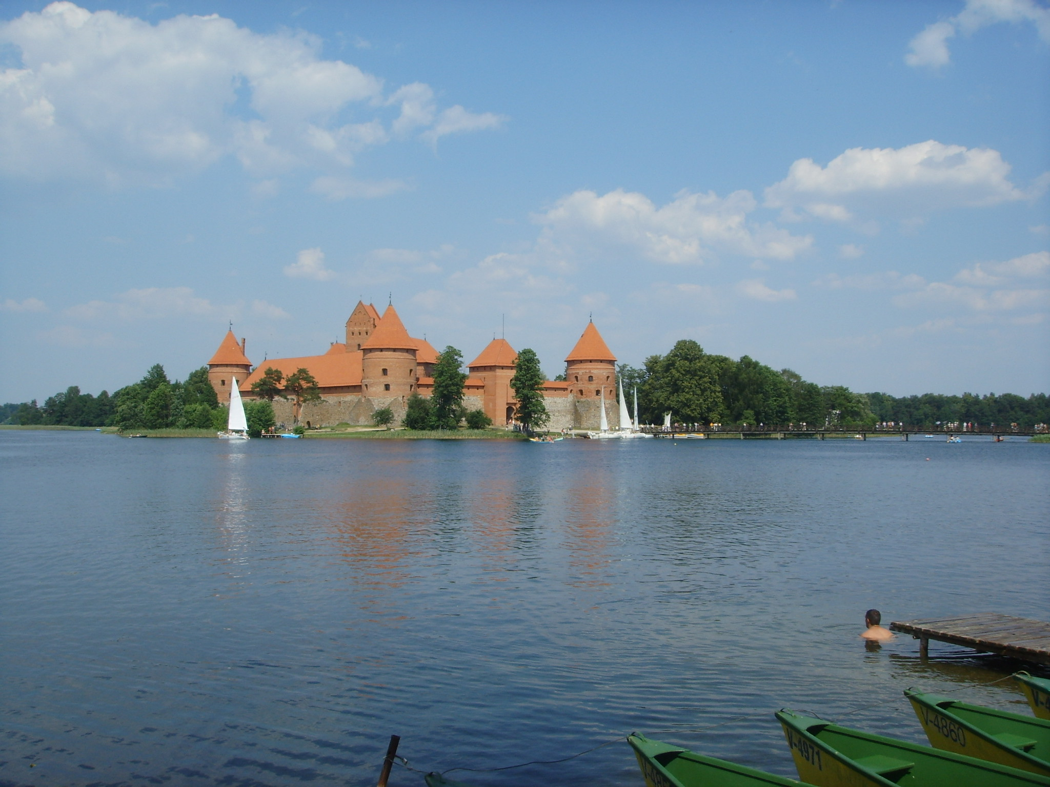 Trakai castle, July 2006. Photographer: Jan S. Krogh.